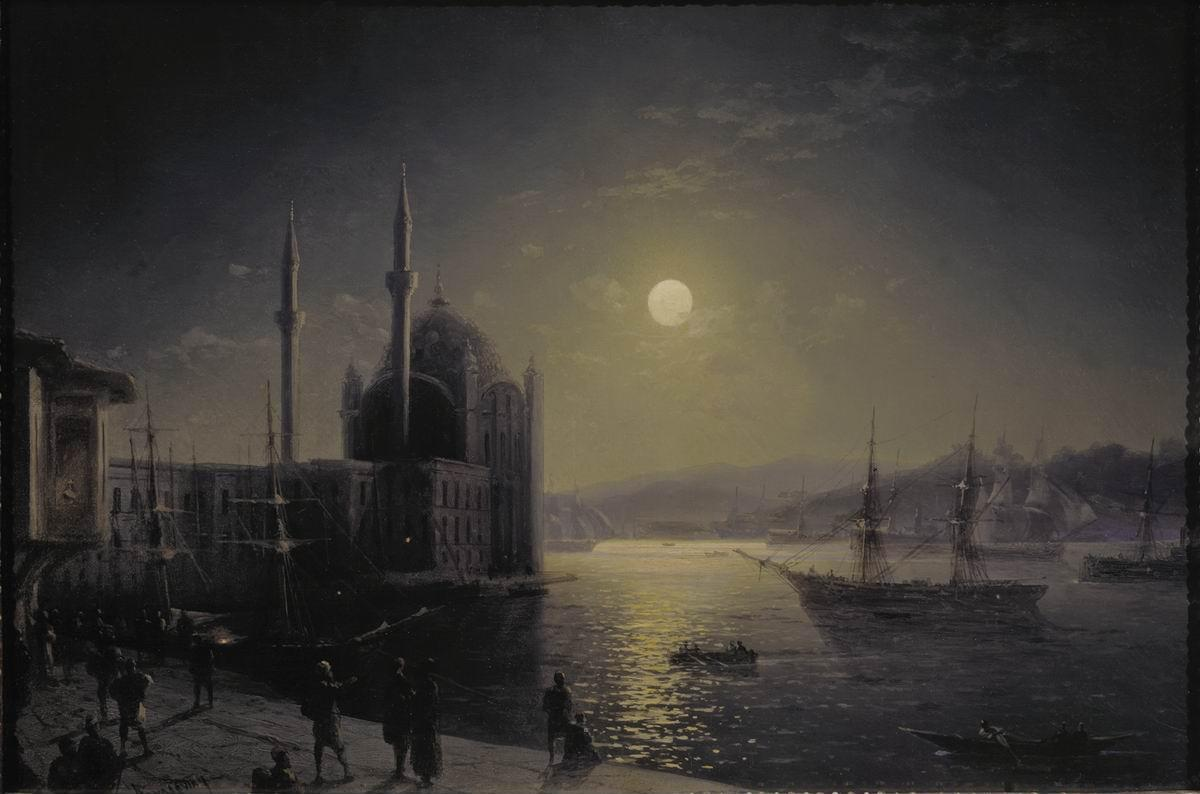 A Moonlit Night on the Bosphorus